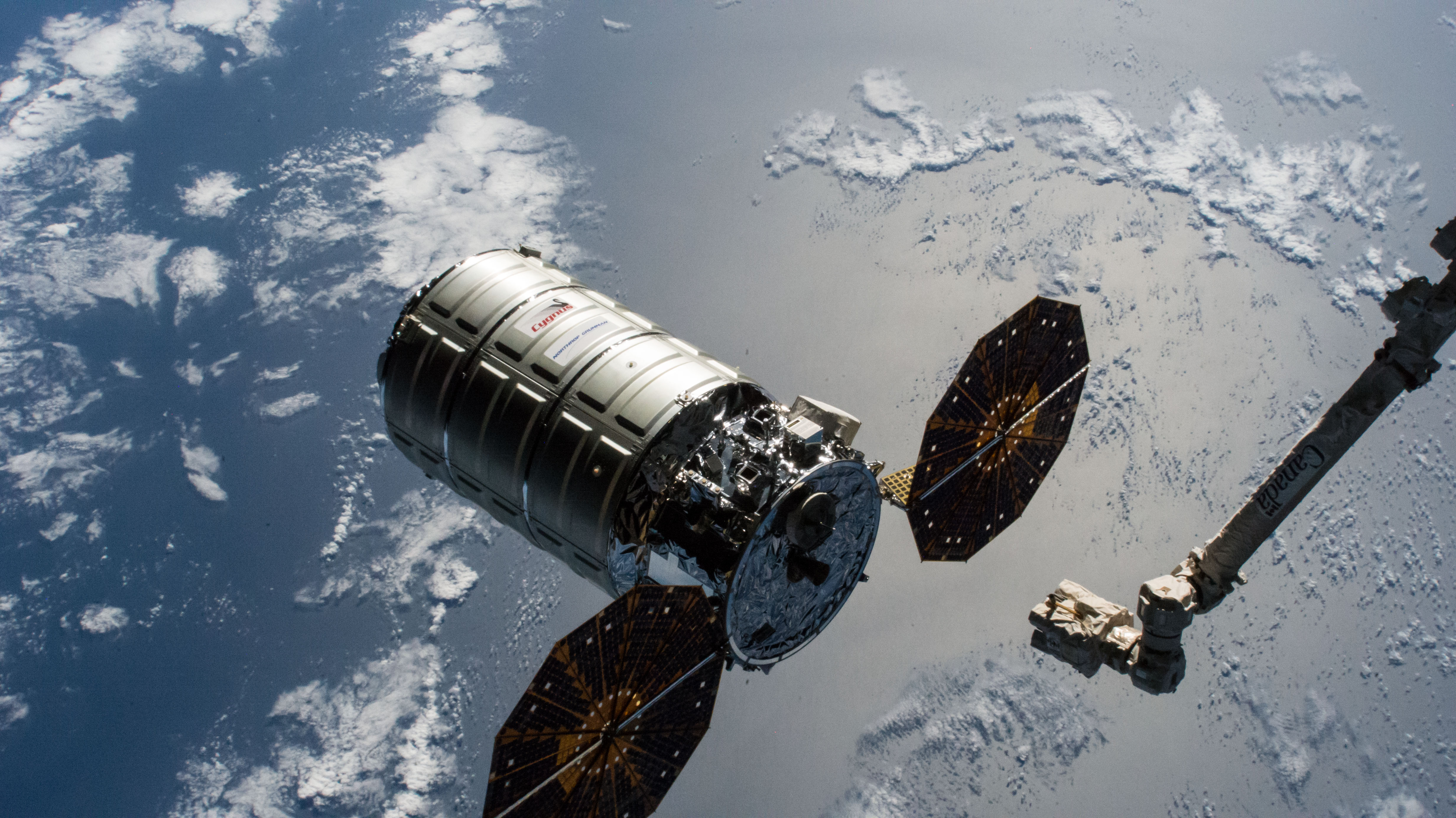 The Cygnus cargo craft from Northrop Grumman is released from the grips of the Canadarm2 robotic arm as the International Space Station was orbiting over the Pacific Ocean off the coast of Peru.